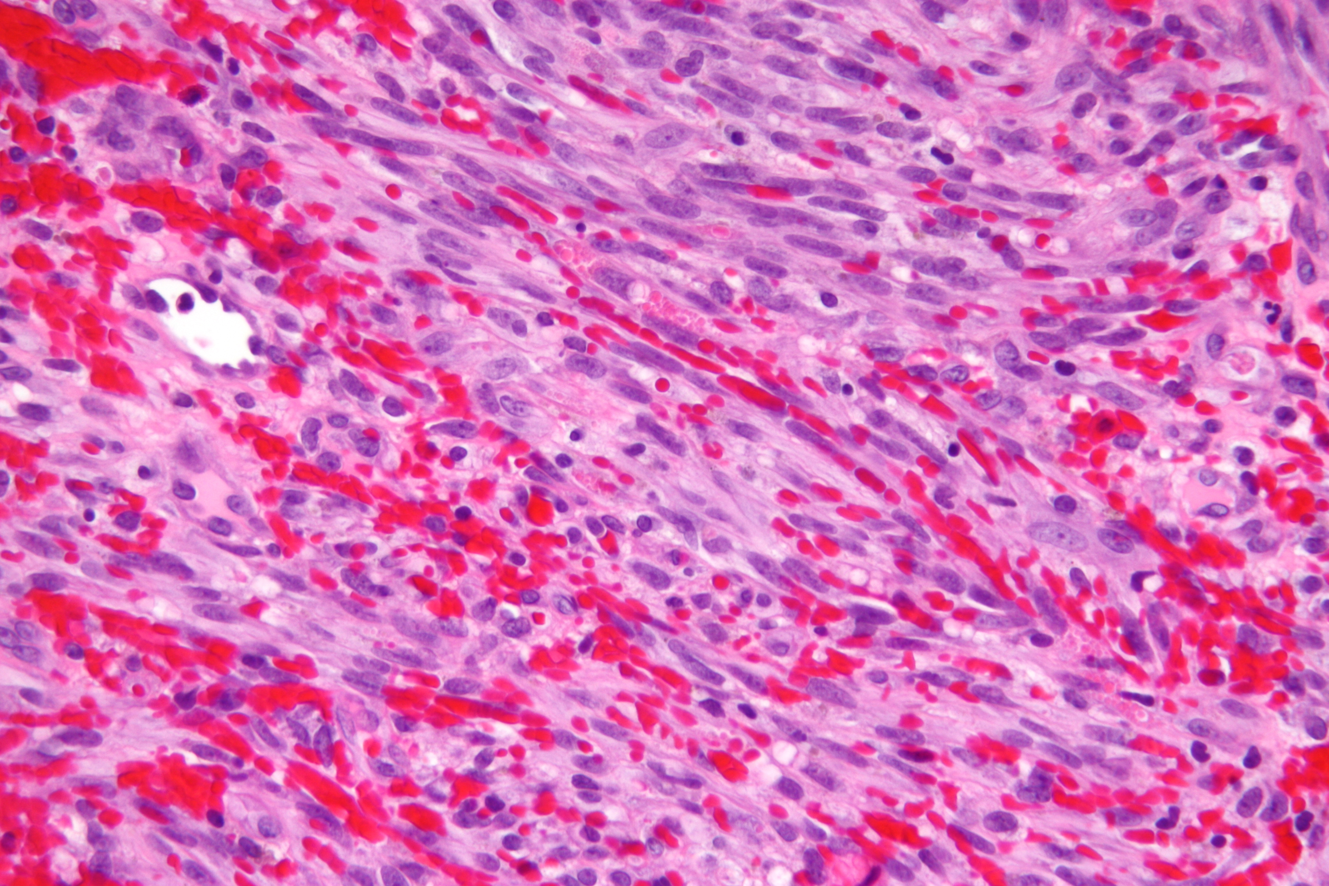 Micrograph of Kaposi sarcoma. H&E stain. Features: Abundant small branching blood vessels. Spindle cells. Intracellular hyaline globs. Related images Intermed. mag.